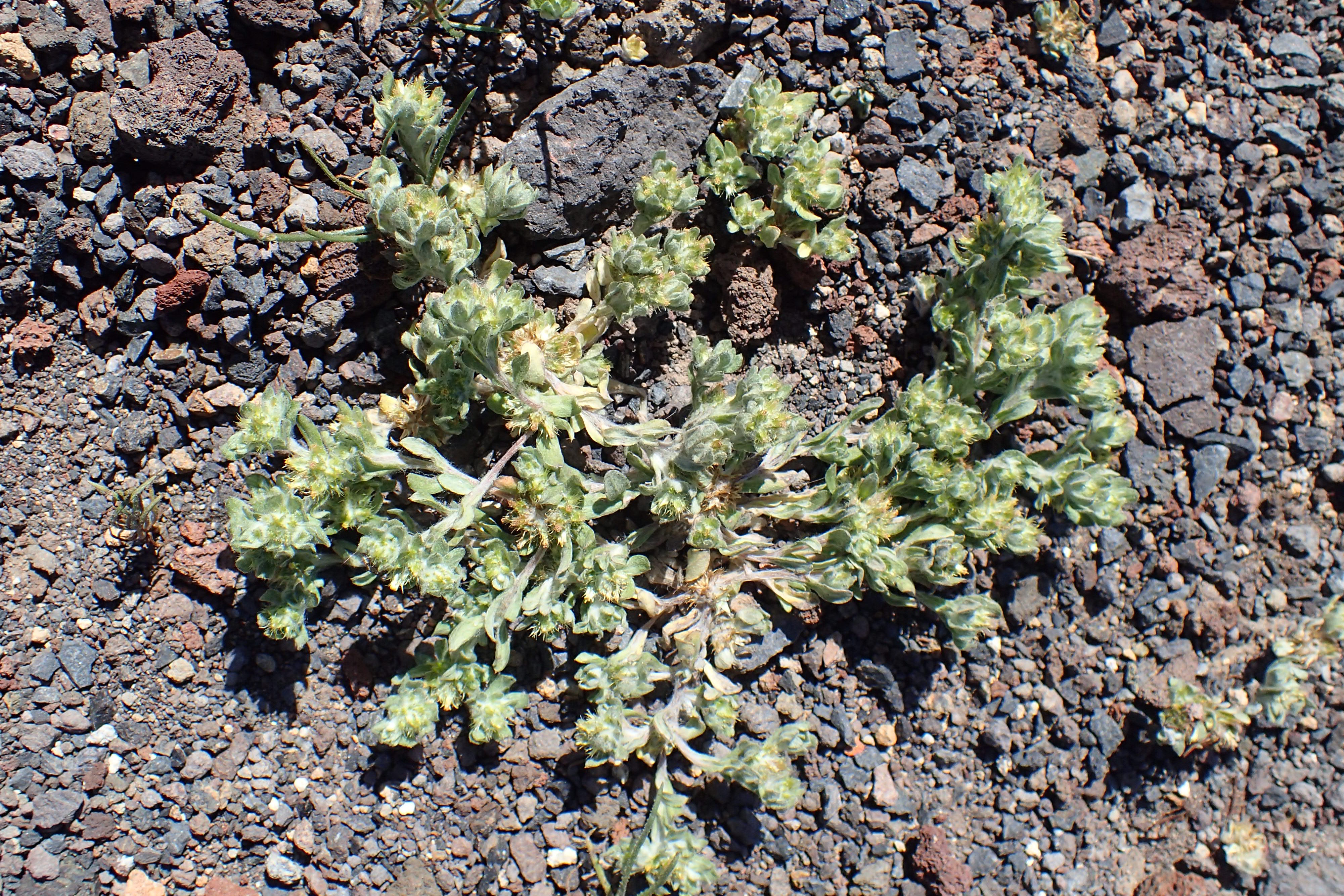 Filago desertorum in Mancha Redonda, Tenerife, Canary Islands